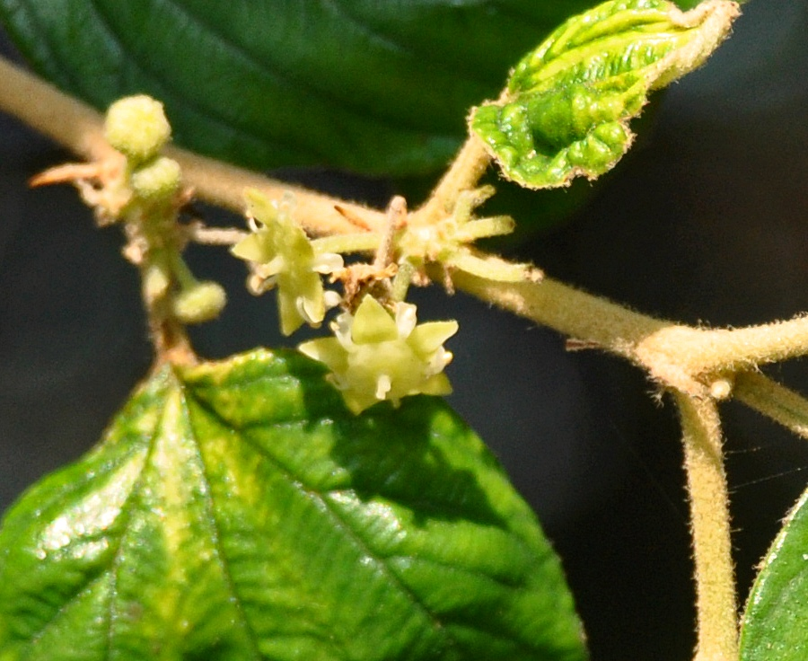 Inflorescence (close up) of wild Ziziphus mauritiana from North Lombok, Nusa Tenggara, Indonesia